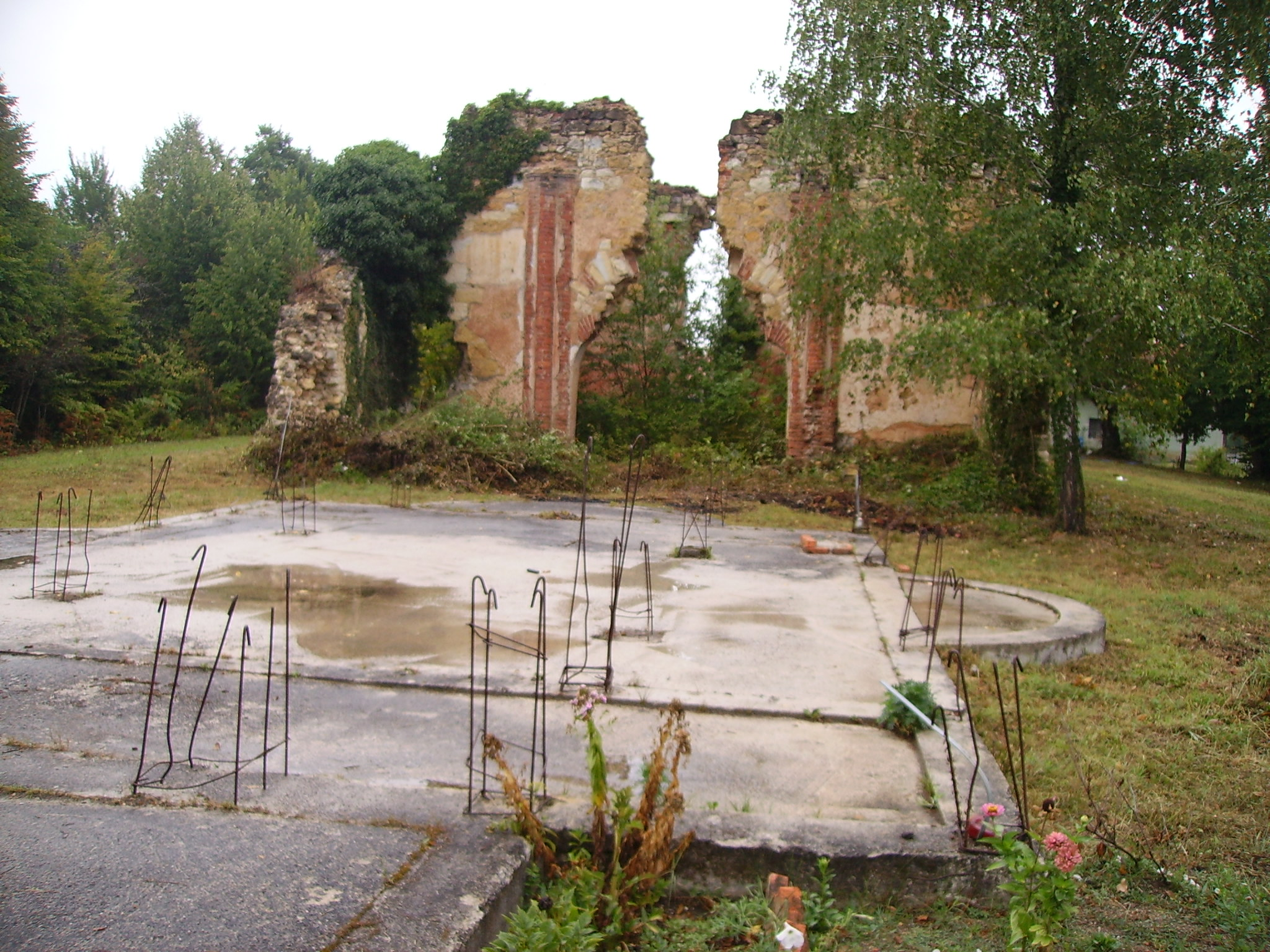 Destructed church in Bović, Croatia.